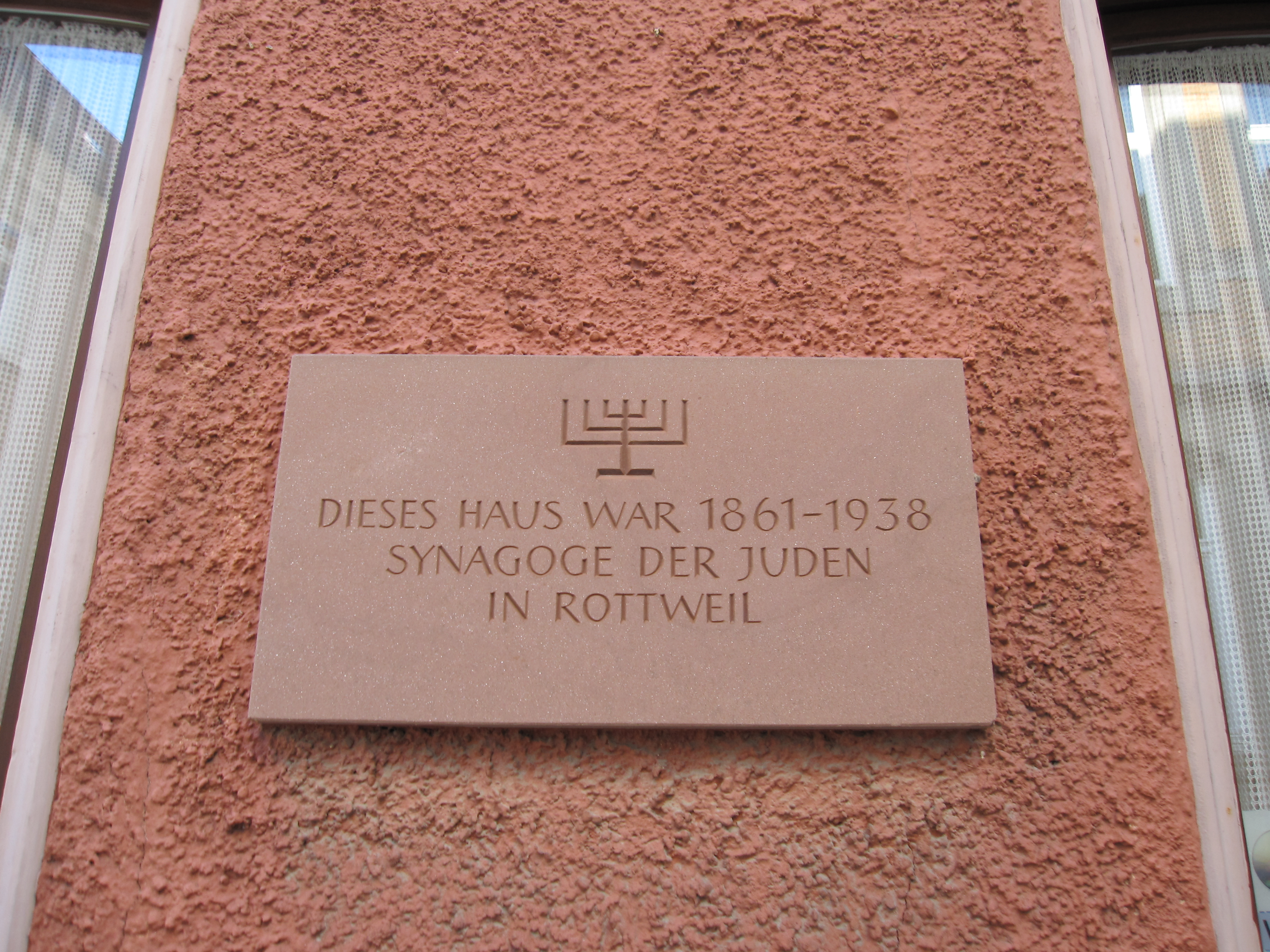 Former Synagogue in Rottweil